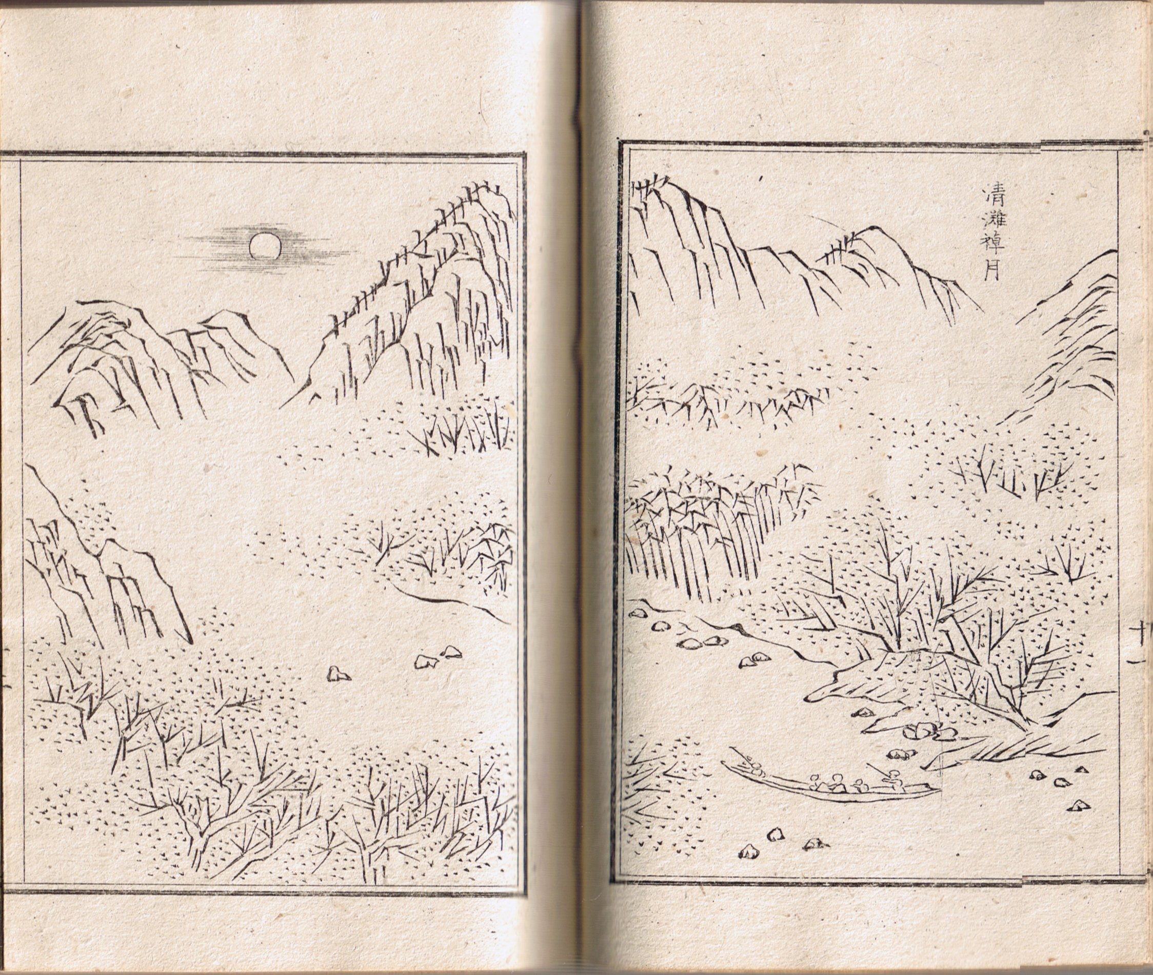 P.11 - P.12 from portable manuscript book of "Tsukigase Kisho/Getsurai Kisho No.1 (月瀬記勝) written by Saito Setsudo (斎藤拙堂)" in 1884, published by Shikada Seishichi (鹿田静七). Book size (WxHxD): 8.5cm x 12cm x 0.8cm ja: 斎藤拙堂著『月瀬記勝』上巻 携帯型写本の 11 - 12 頁、1884年（明治17年）鹿田静七刊 大きさ (幅x高x厚): 8.5cm x 12cm x 0.8cm